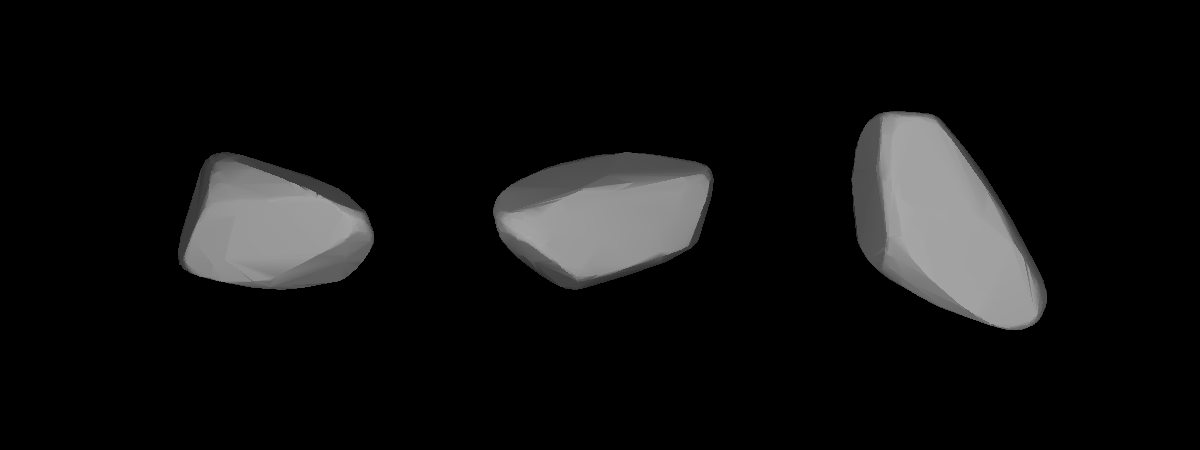 A three-dimensional model of 614 Pia that was computed using light curve inversion techniques.